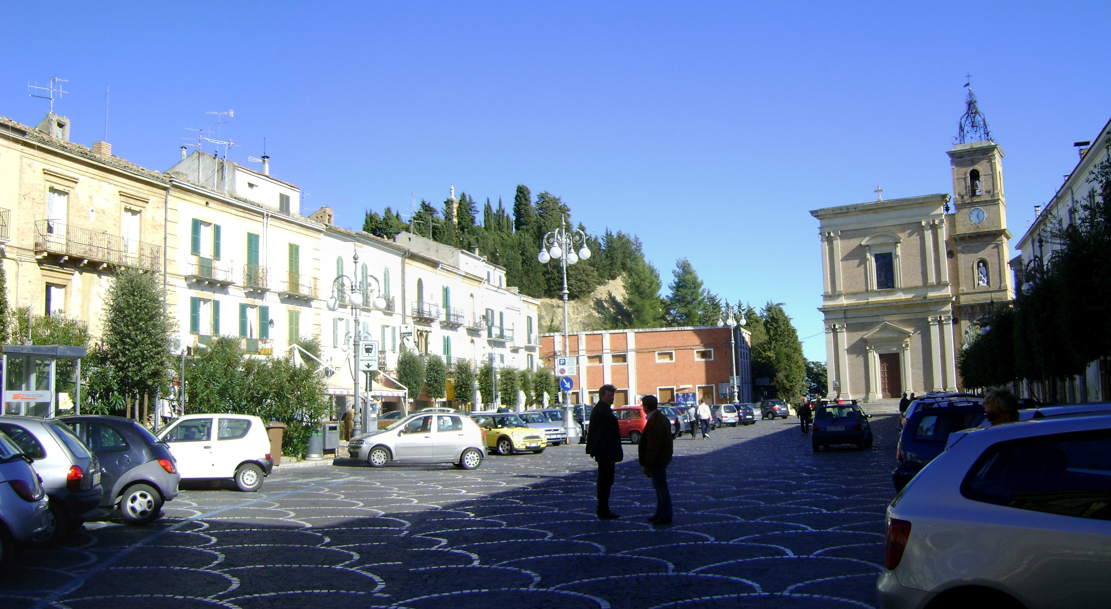 Piazza Garibaldi, the most important square of Atessa